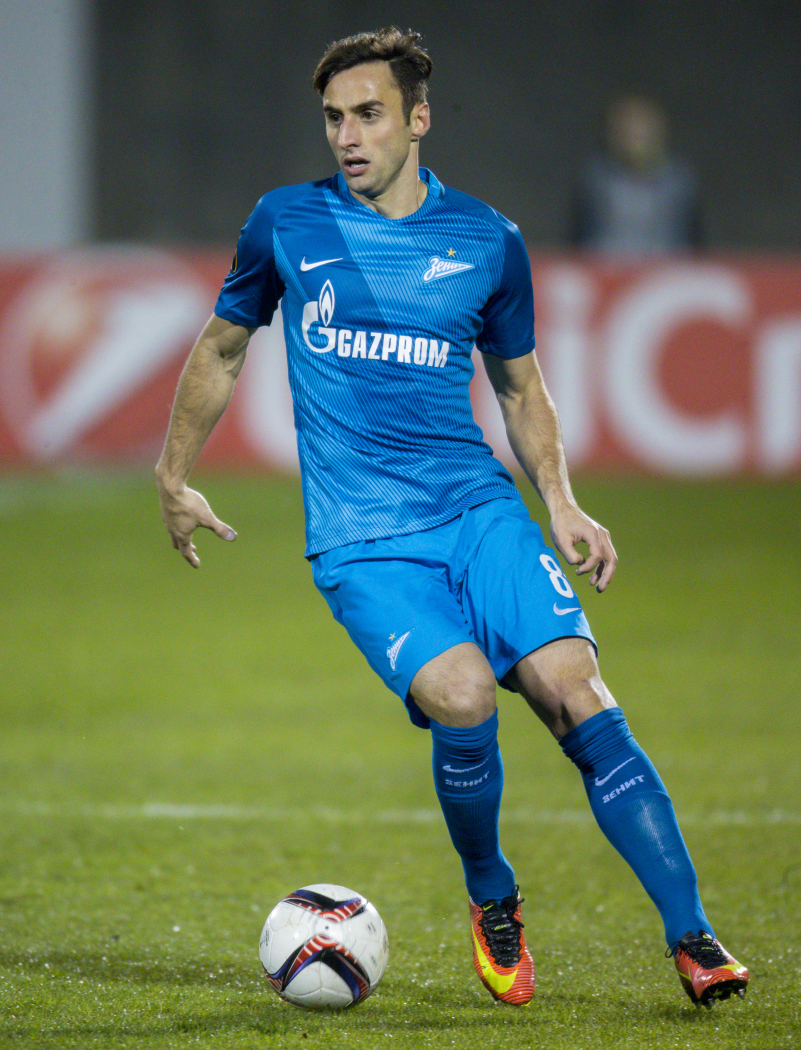 Maurício José da Silveira Júnior